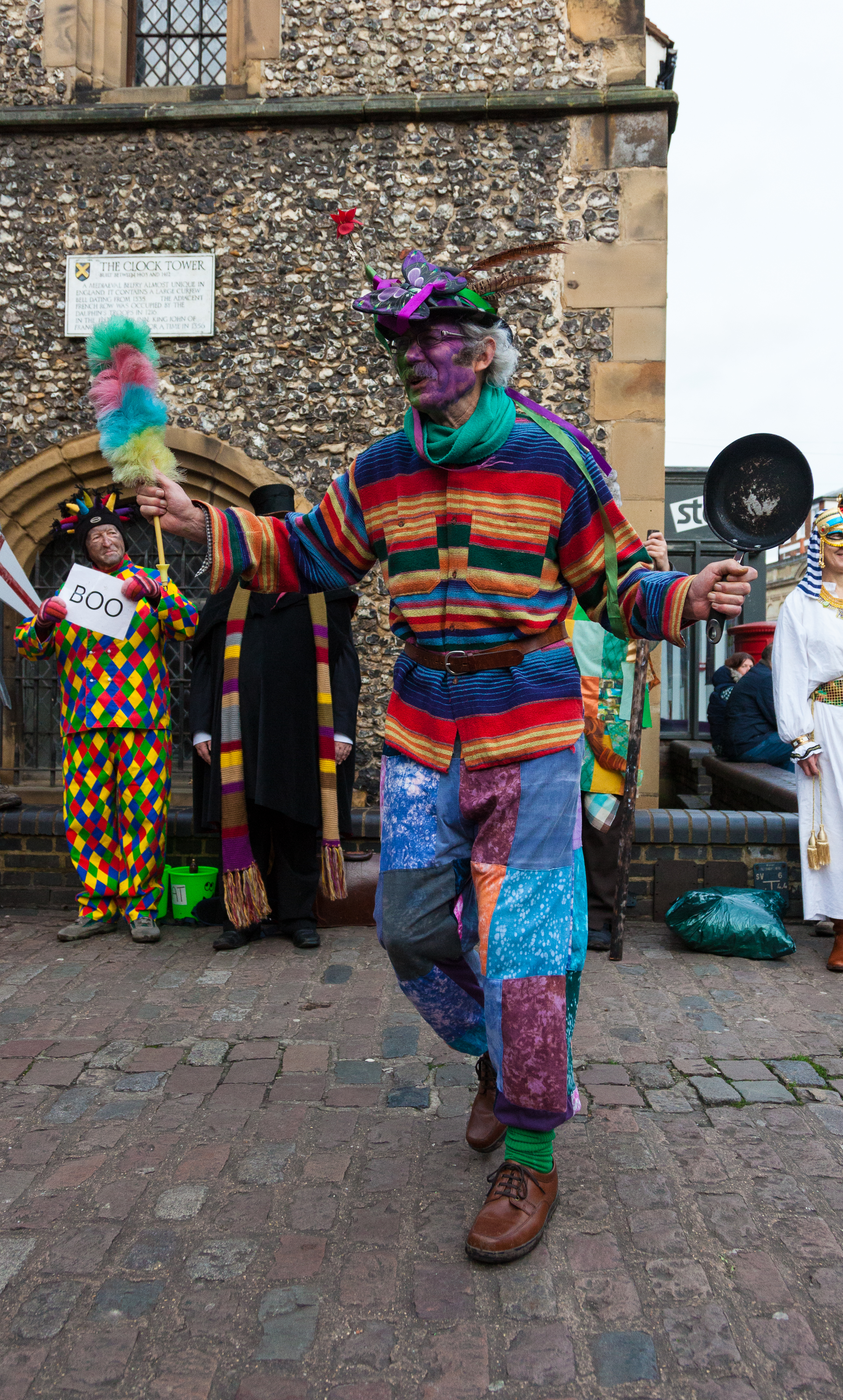 Beelzebub, in a production of St George and the Dragon by the St Albans Mummers